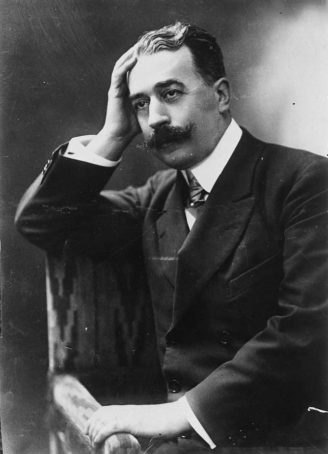 Photograph of French statesman Étienne Clémentel (1864-1936).